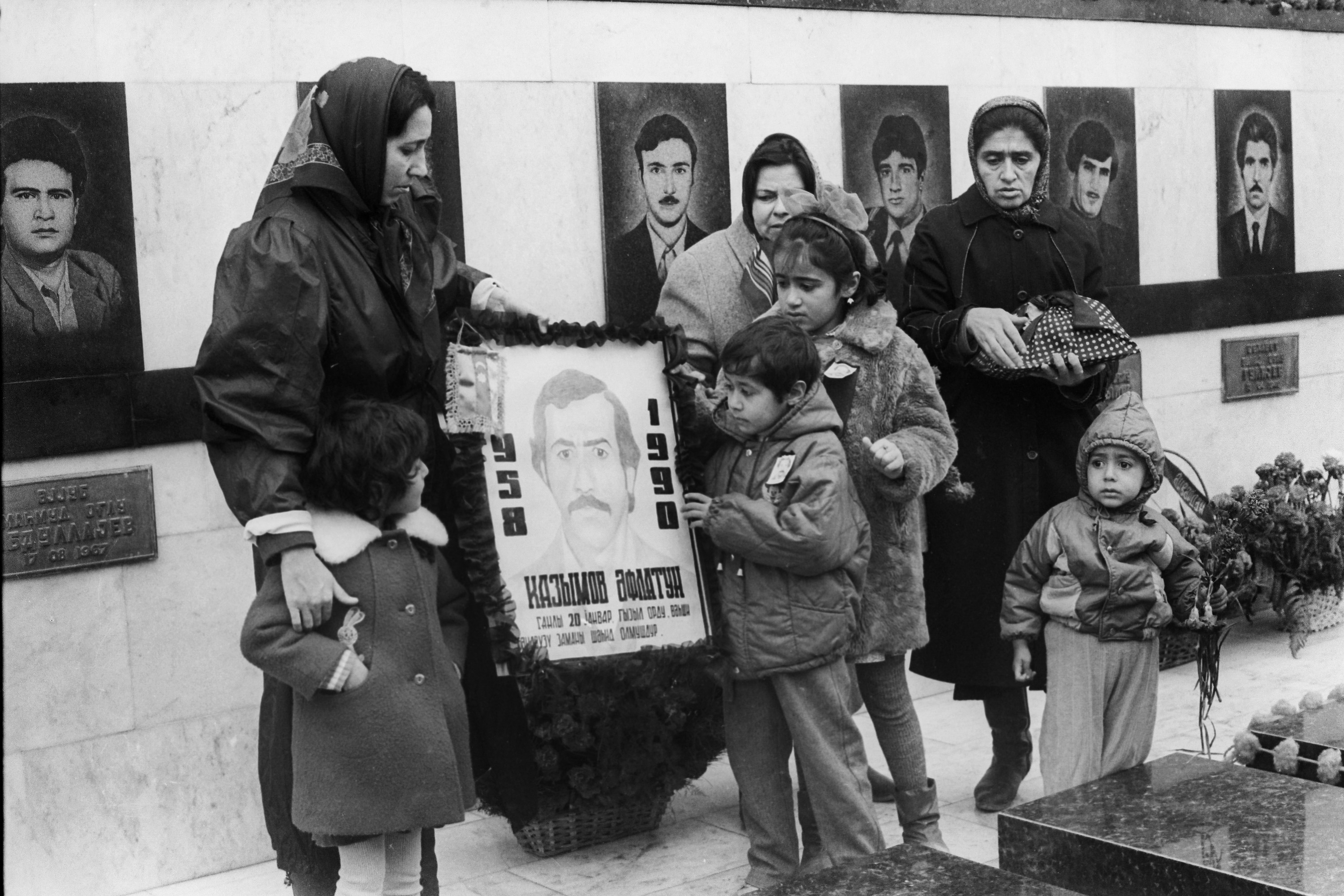 Martyrs' Lane